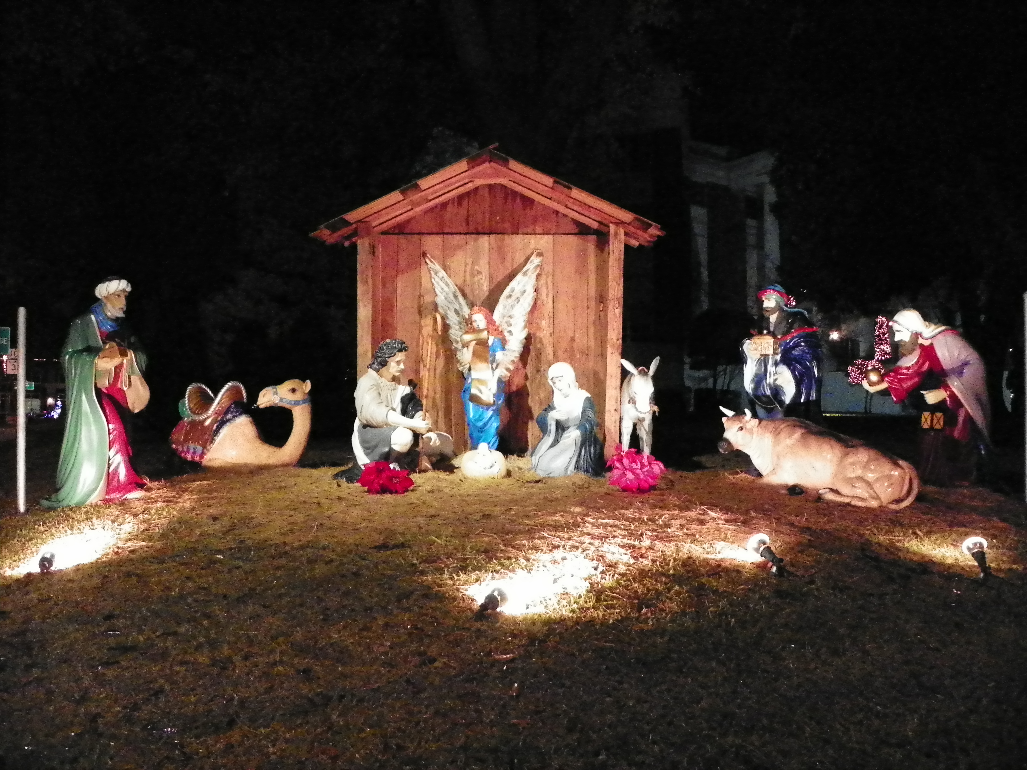 Nativity scene at the Henderson County courthouse in Athens, TX